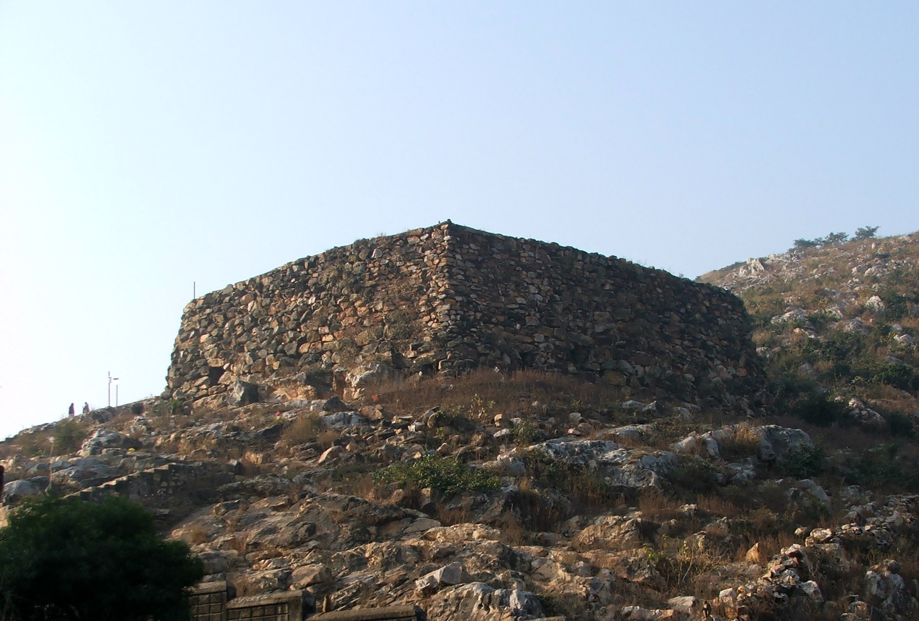 Remains of Pipphali's house or the Pipphali Cave, where Maha Kassappa is recorded as having stayed. Located at Rajgir, Bihar, India.